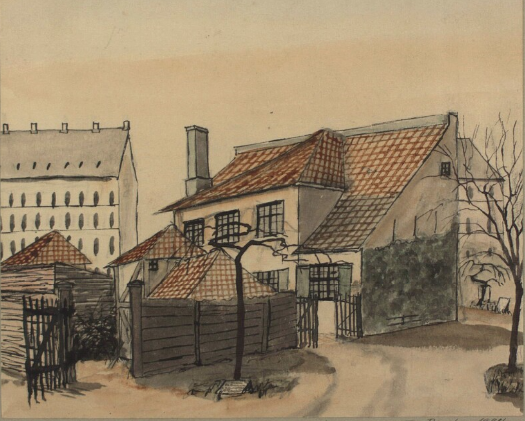 Graverboligen seen from the courtyard at Assistens Cemetery in Copenhagen, Denmark